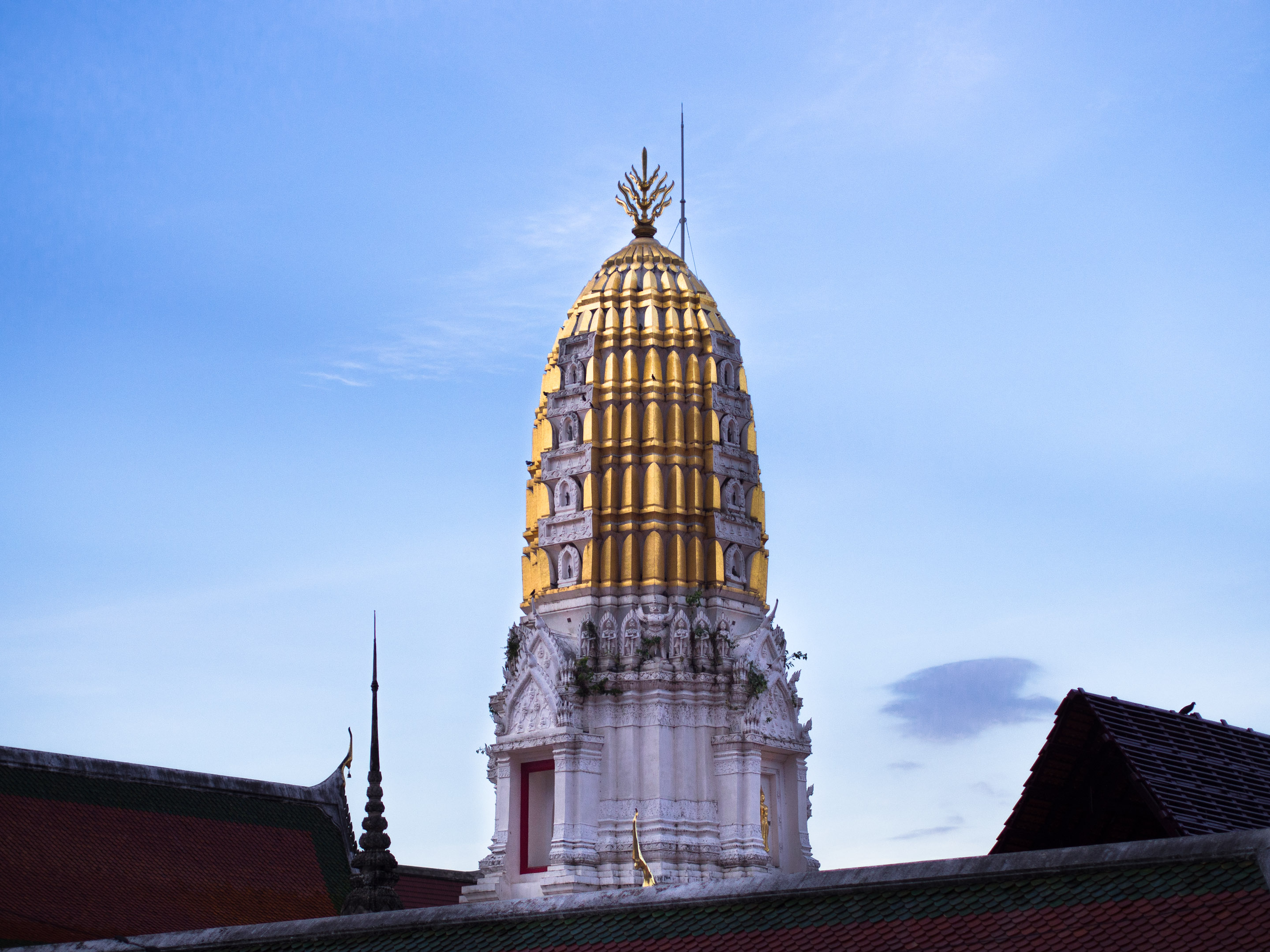 The "prang" of Wat Phra Si Rattana Mahathat in Phitsanulok at sunset.